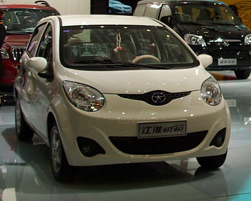 JAC (Jianghuai) Yueyue at the 2011 Shenzhen-Hong Kong-Macau International Auto Show.